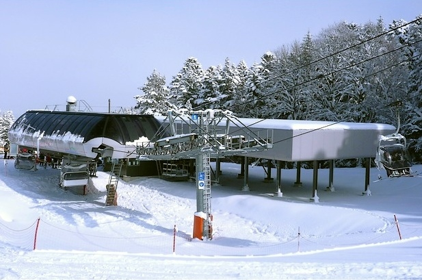 Chairlift "Les Jasseries", Leitner, Chalmazel ski resort (France, Loire)